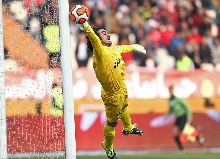 78th derby of Tehran, Esteghlal vs Perspolis.